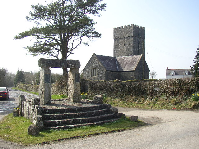 Marros Church and War Memorial. The church tower is typical of the defensive towers built in this area in the 13C & 14C. The unusual war memorial is modelled on the nearby Neolithic tombs at Garness Farm.